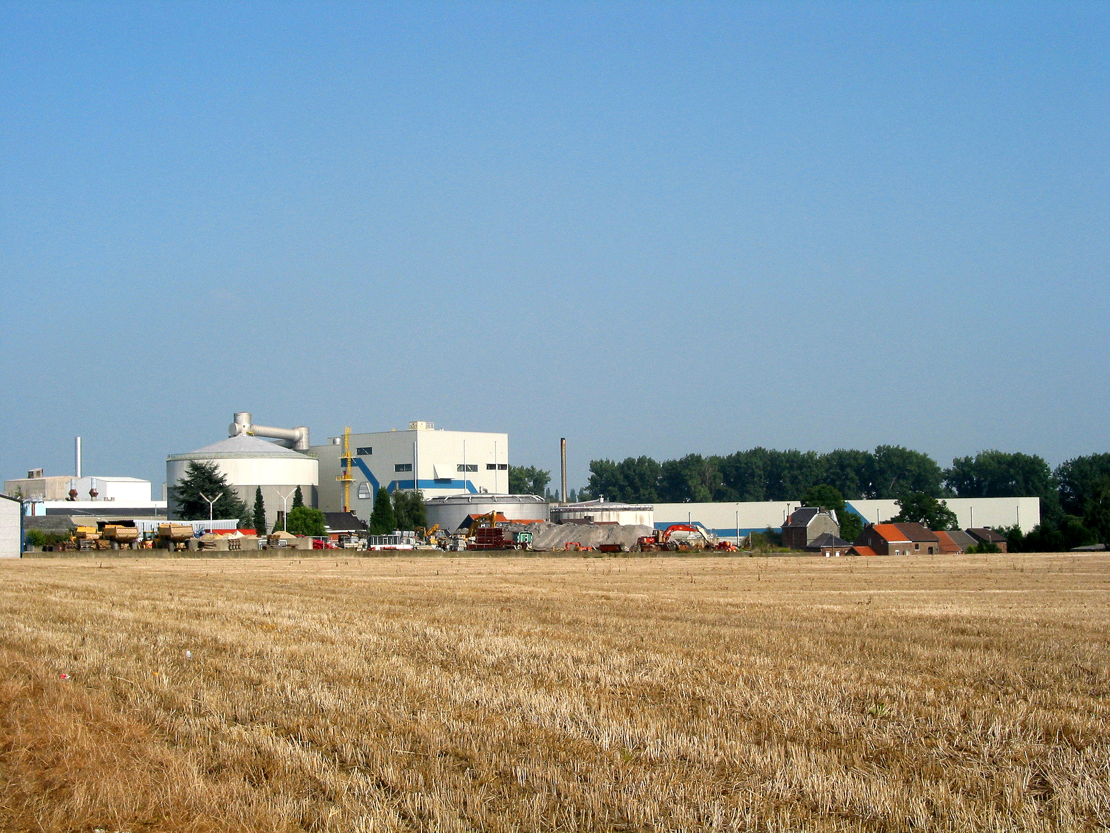 Oreye (Belgium), the "Notre-Dame" sugar factory (refinery).